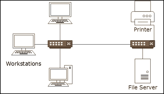 लोकल एरिया नेटवर्क - LAN (Local Area Network)